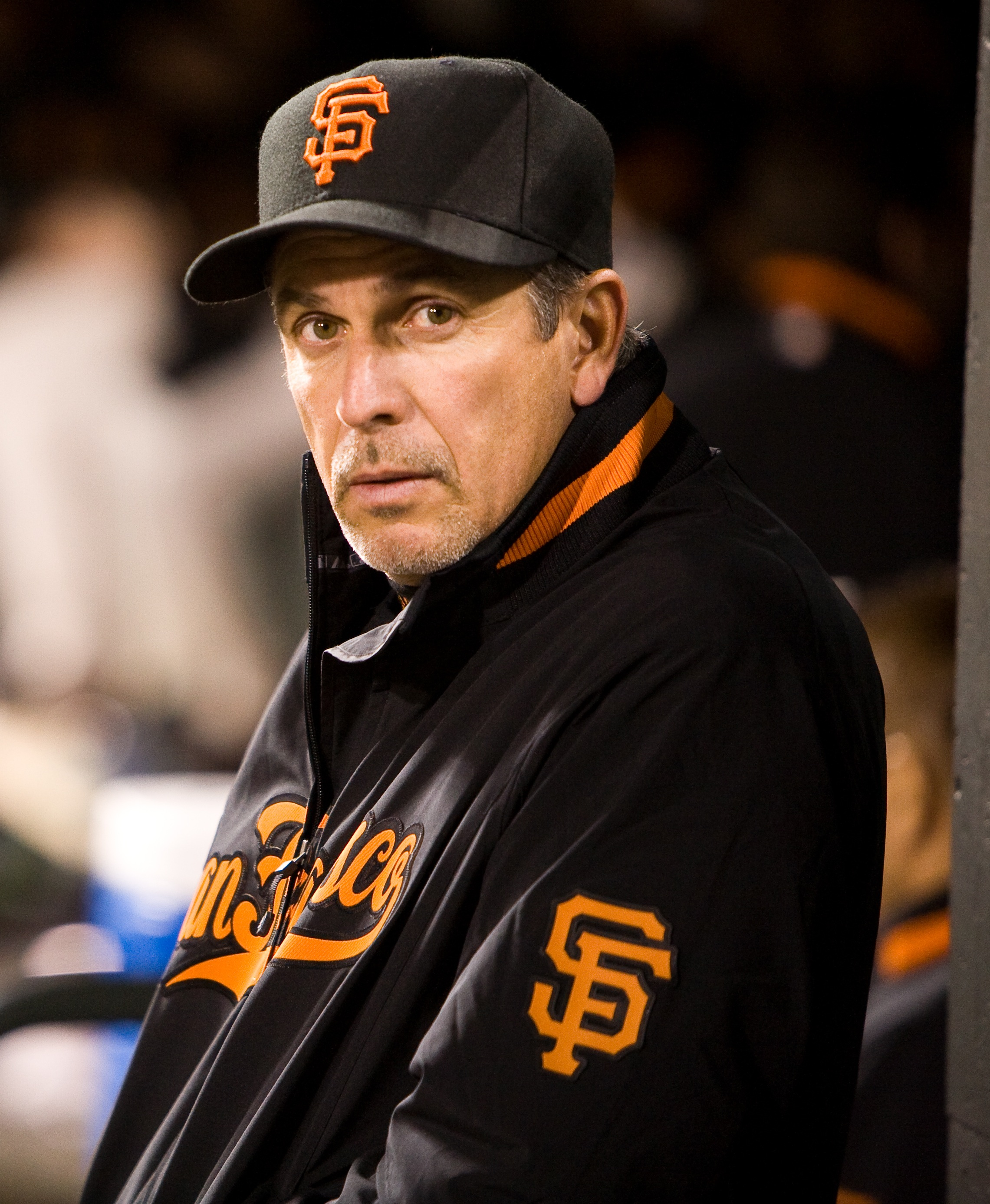 San Francisco Giants bench coach Ron Wotus, 2008.